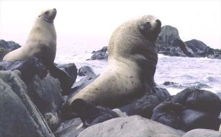 Steller sea lion on rocks